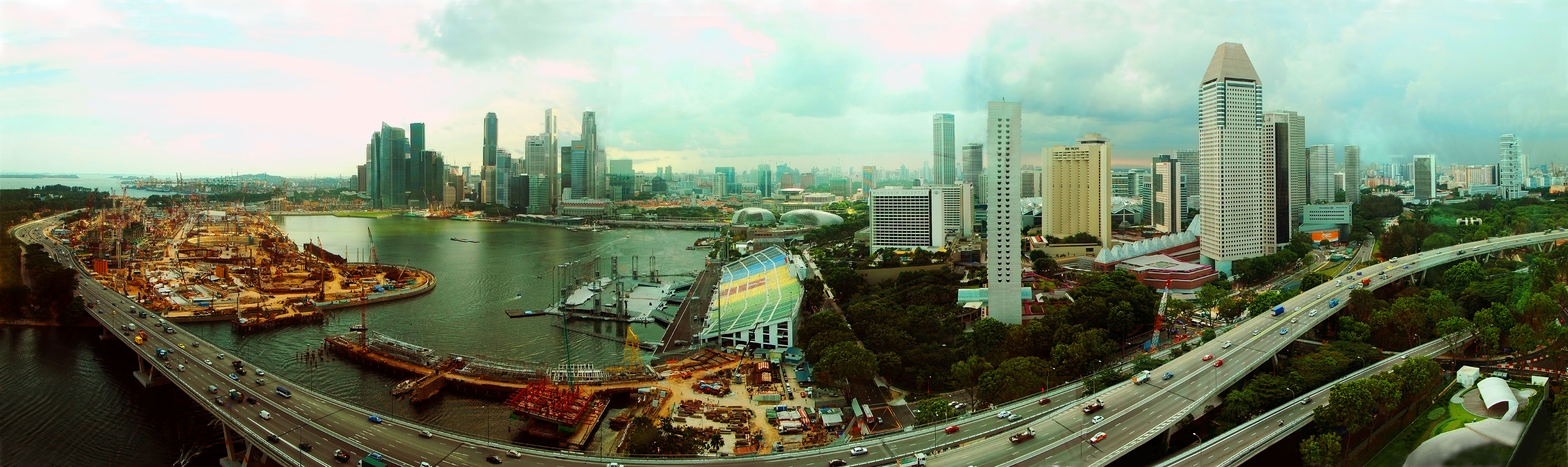 A view of the skyline of Singapore from the Singapore Flyer.